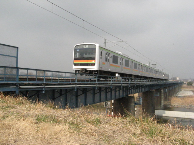 Tama River bridge(Hachiko-line)